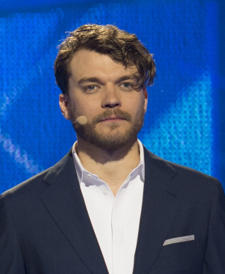 Pilou Asbæk during the Eurovision Song Contest 2014 Copenhagen. (Help translate this text)